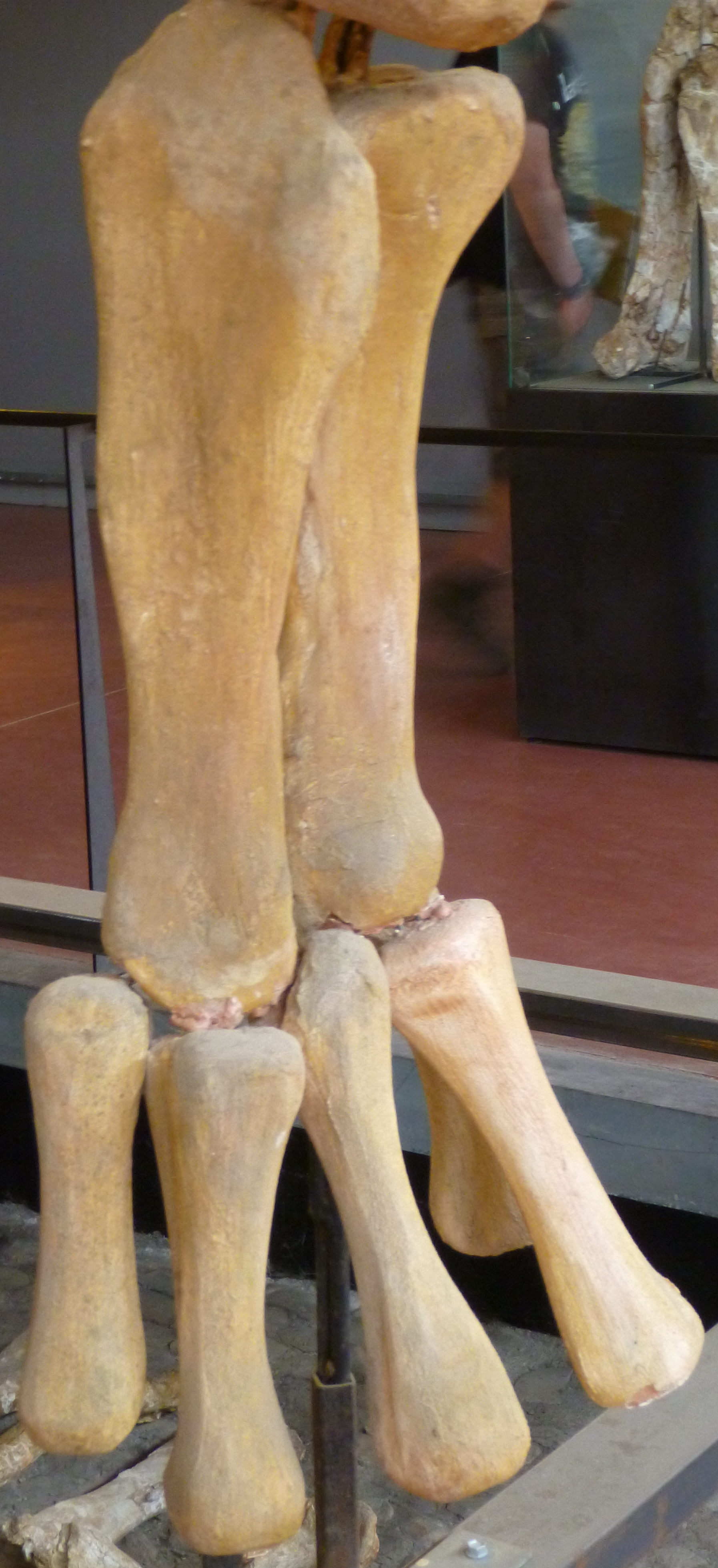 Forearm and hand skeleton of Ampelosaurus. Detail of mounted skeleton the Musée des dinosaures, Esperaza, France